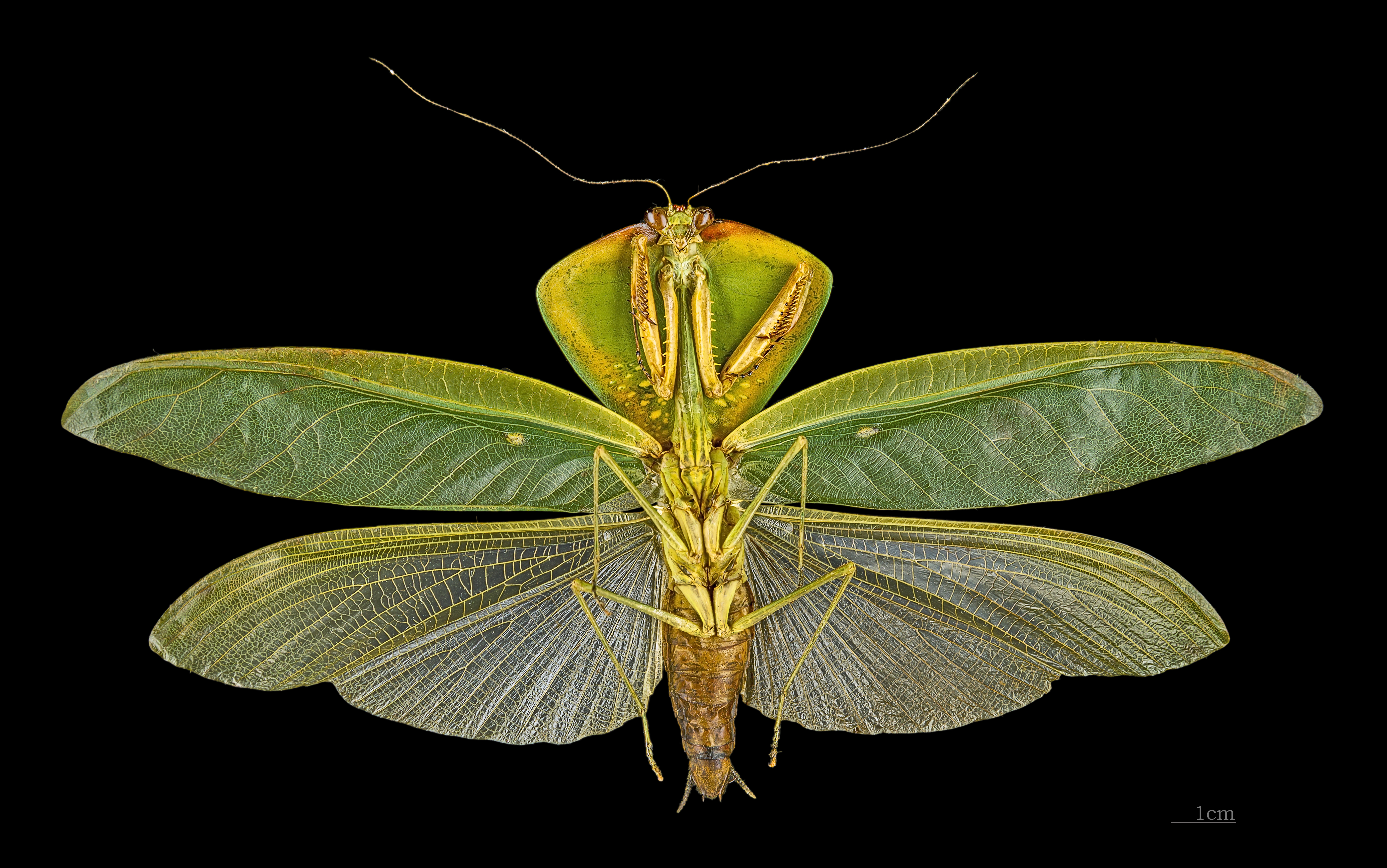 Choeradodis stalii - △ Ventral side